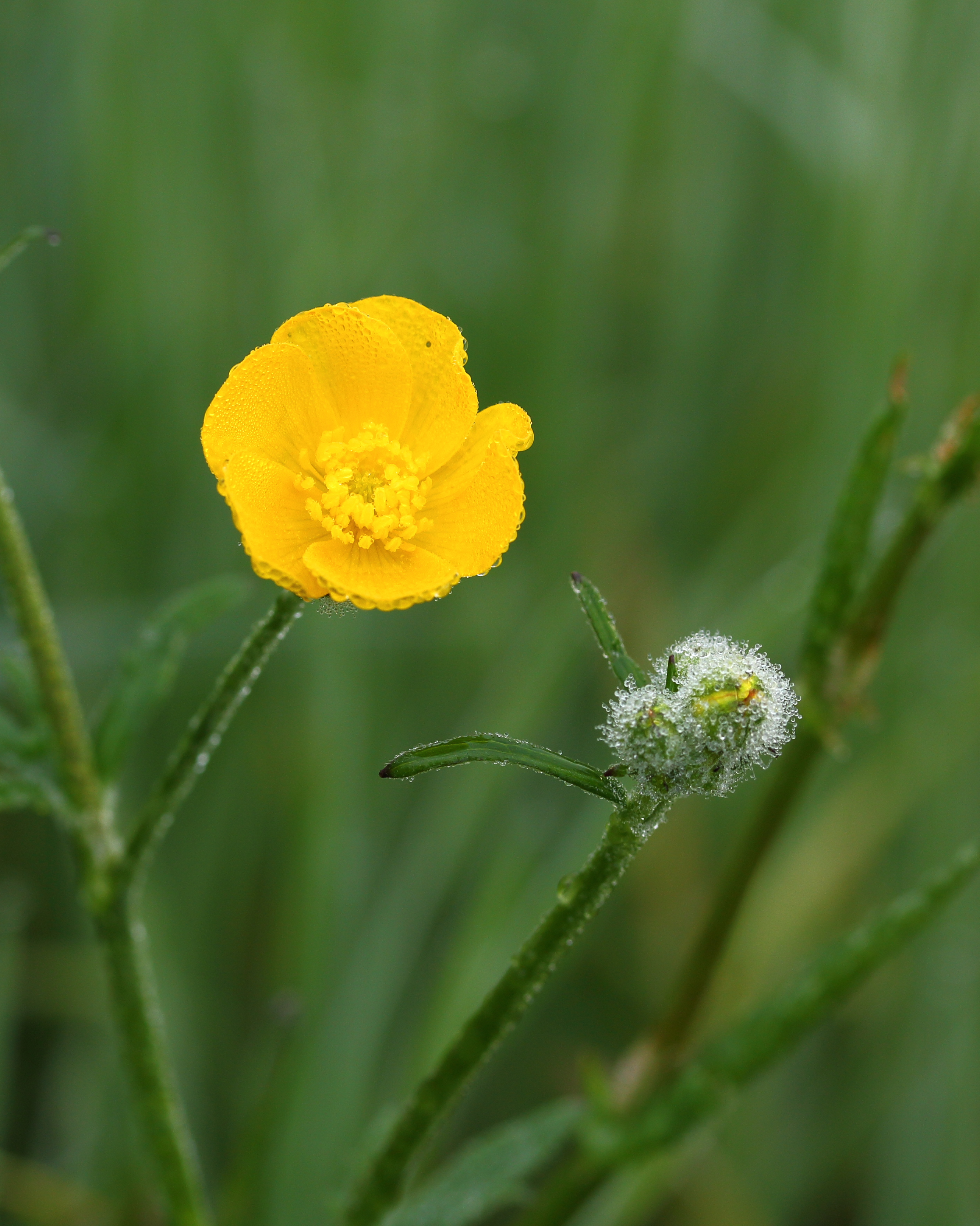 Meadow Buttercup (Ranunculus acris) in early morning covered with dew.